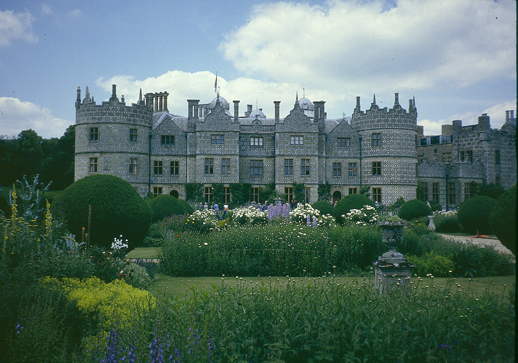 View of Longford Castle at Bodenham just south of Salisbury in Wiltshire, UK